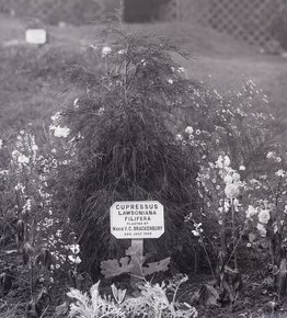 In 1909 Marie Brackenbury was invited to "Suffrogettes Rest" in Batheaston to celebate going to jal by planting a tree